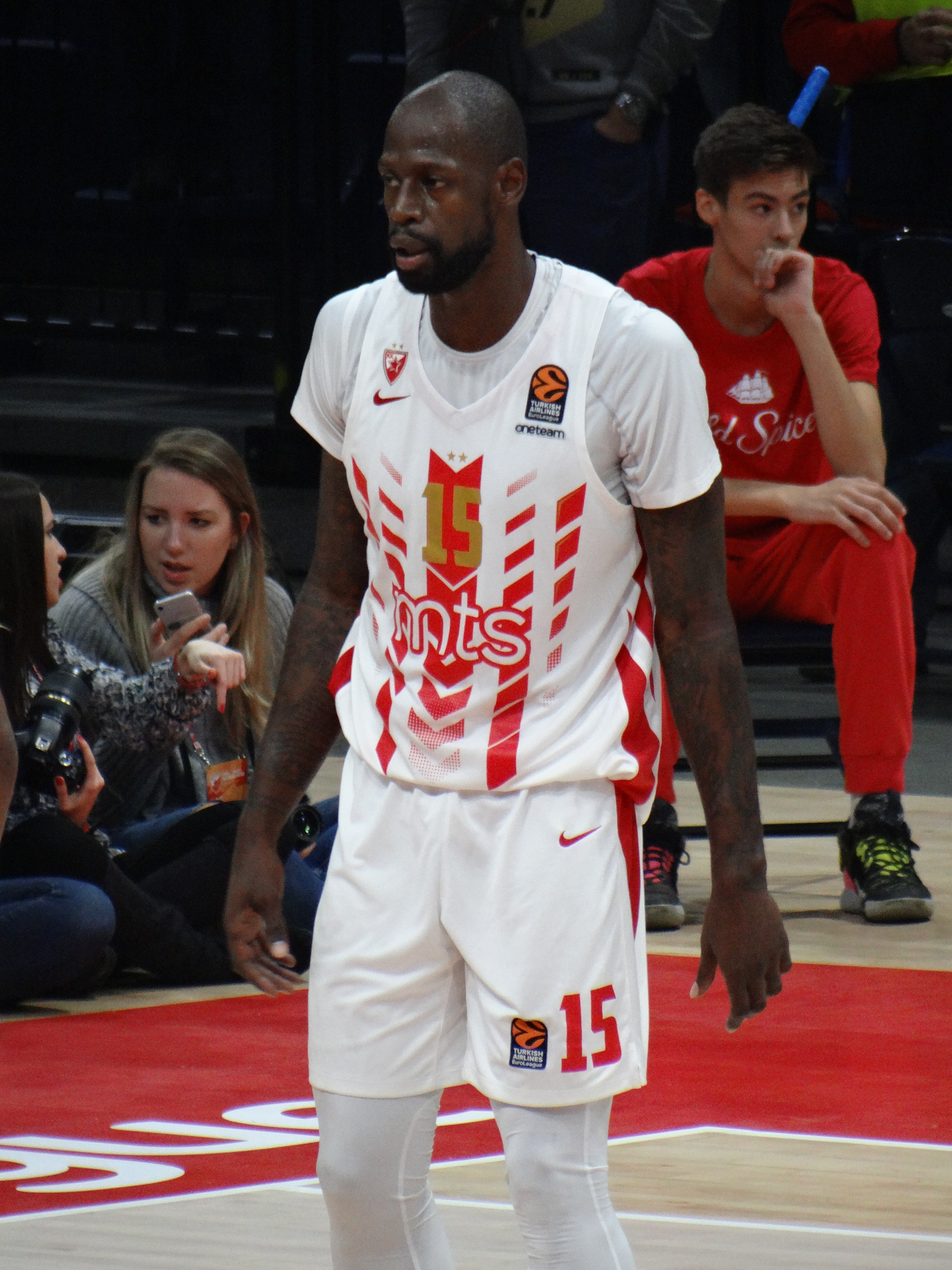 James Gist 15 KK Crvena zvezda EuroLeague 20191010